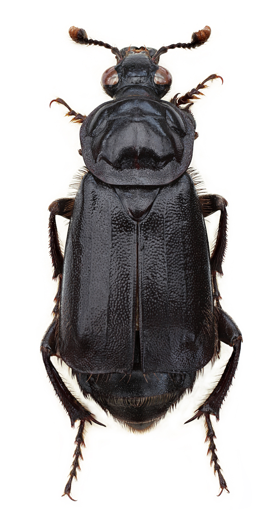 Nicrophorus humator